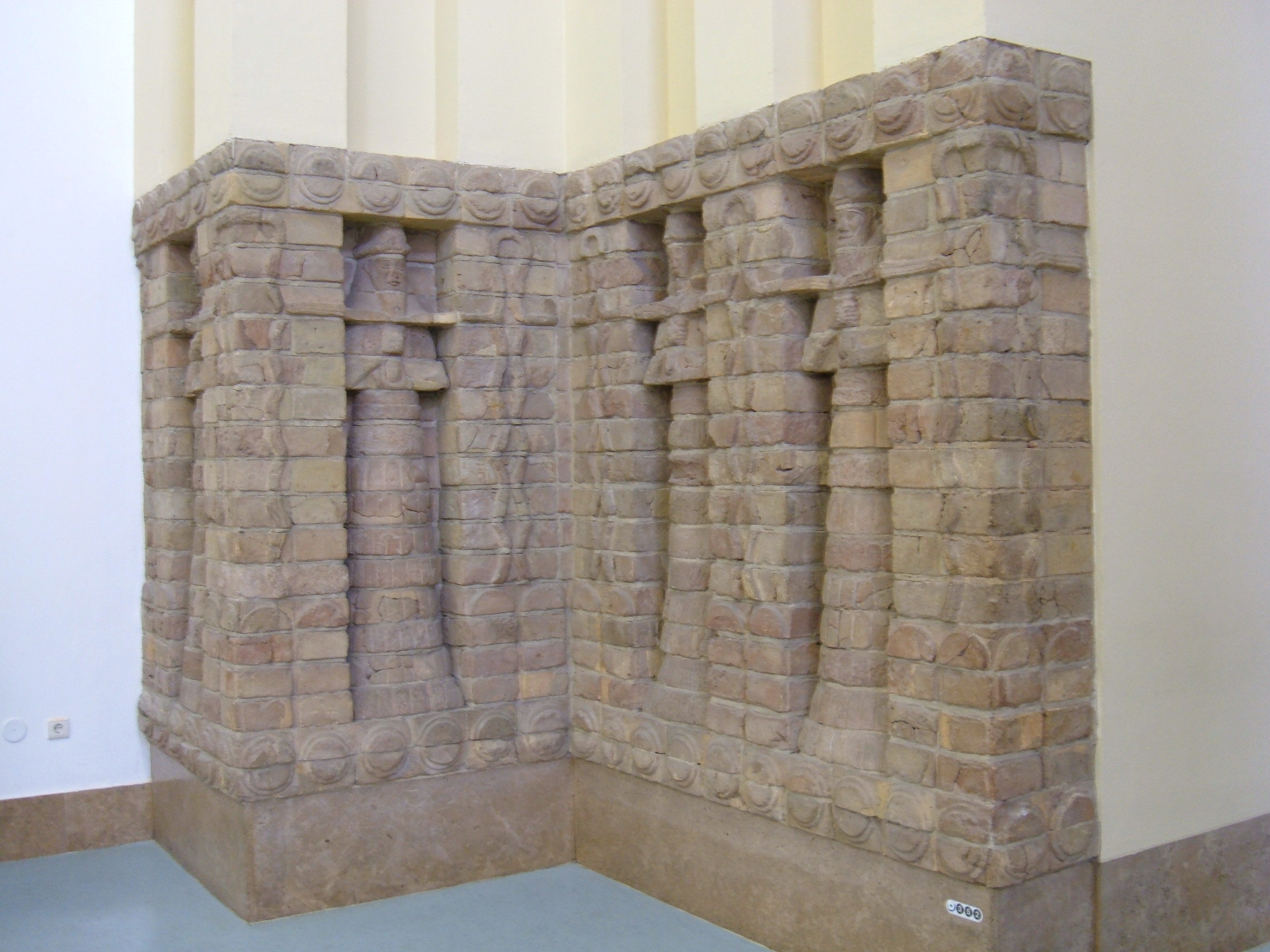 A section of a wall from the Inanna-Ishtar-Temple at Uruk, about 1413 BC, on display at the Pergamon Museum in Berlin, Germany.